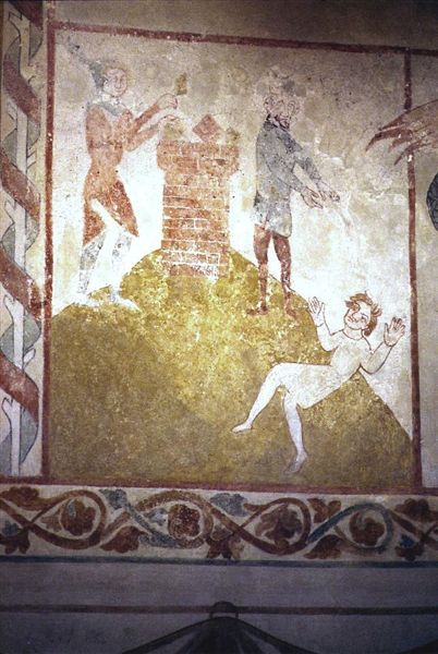 Tirsted Kirke (church)